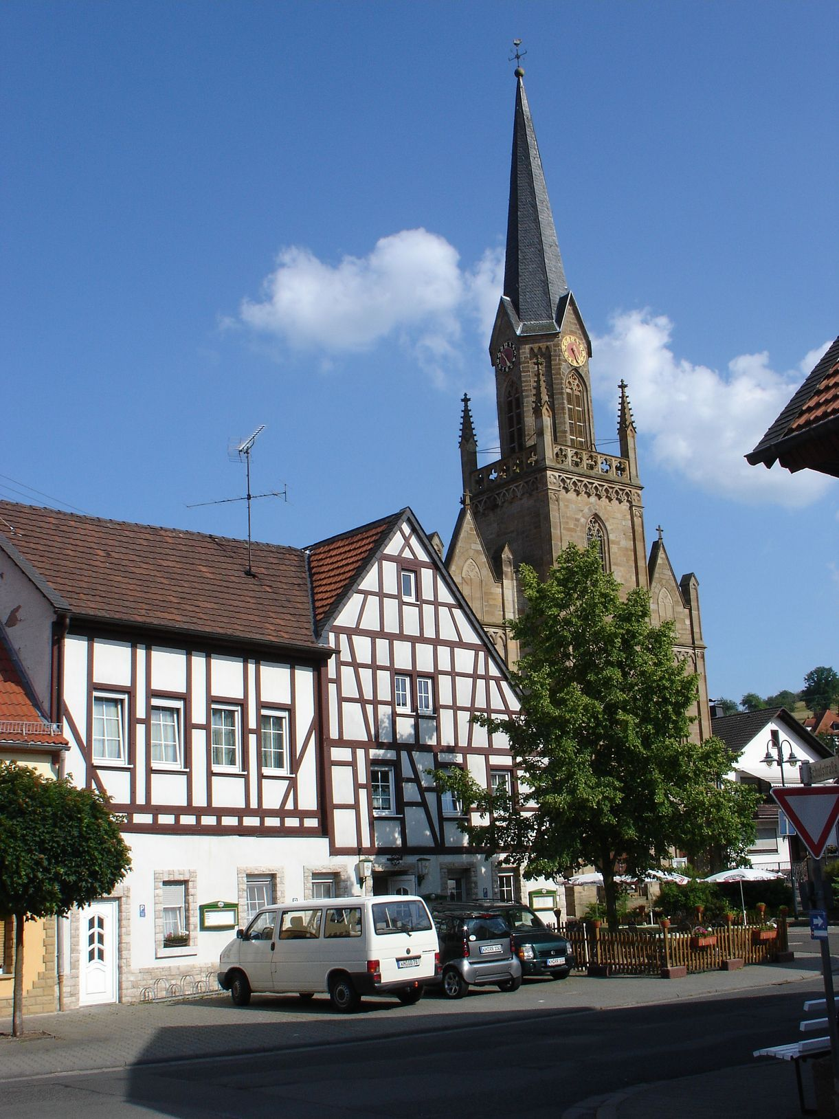 Germany/Rhineland-Palatinate/Staudernheim - Picture July 2007 - Staudernheim center of the town